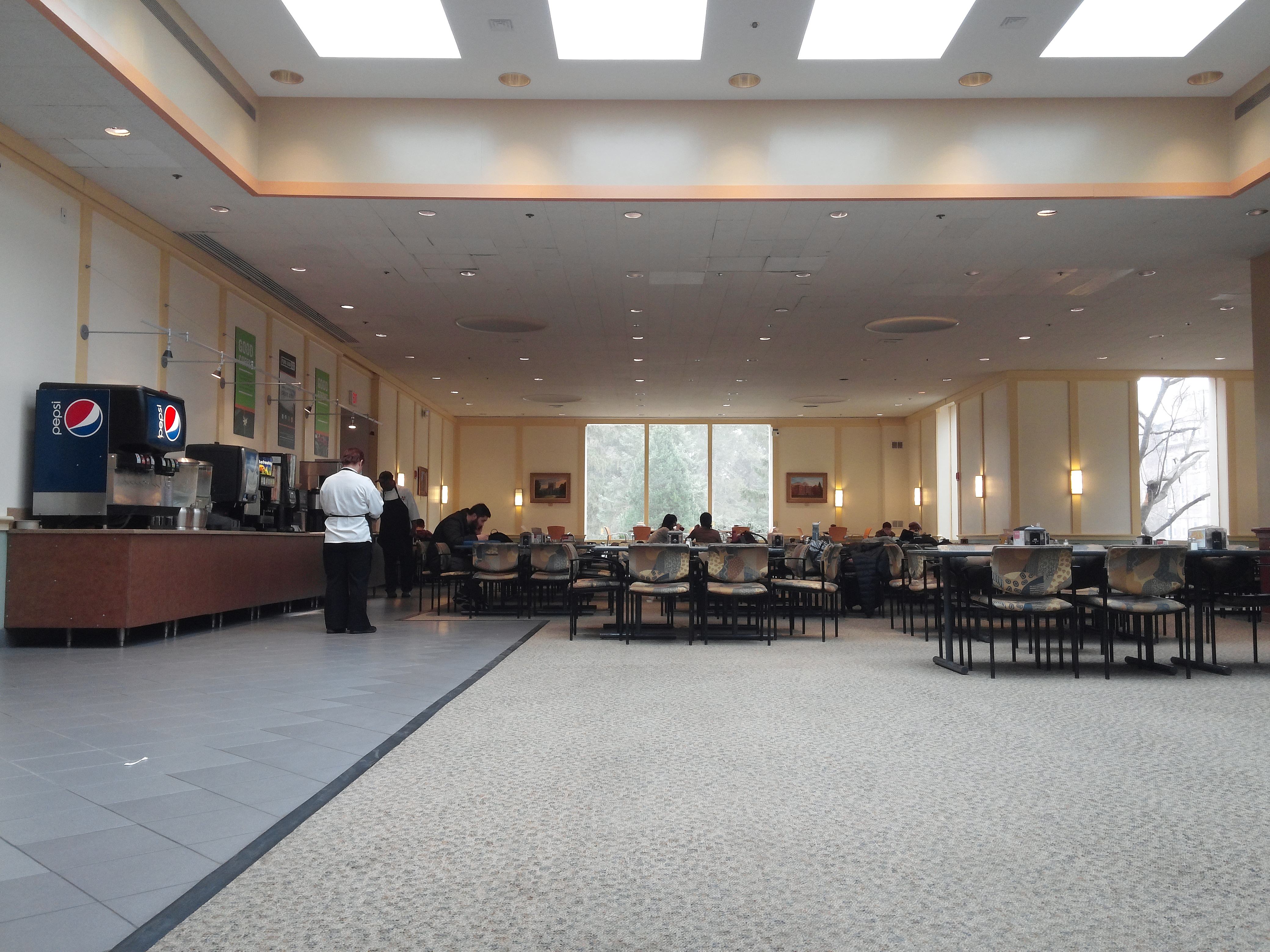 The west side of the All Campus Dining Center at Vassar College.